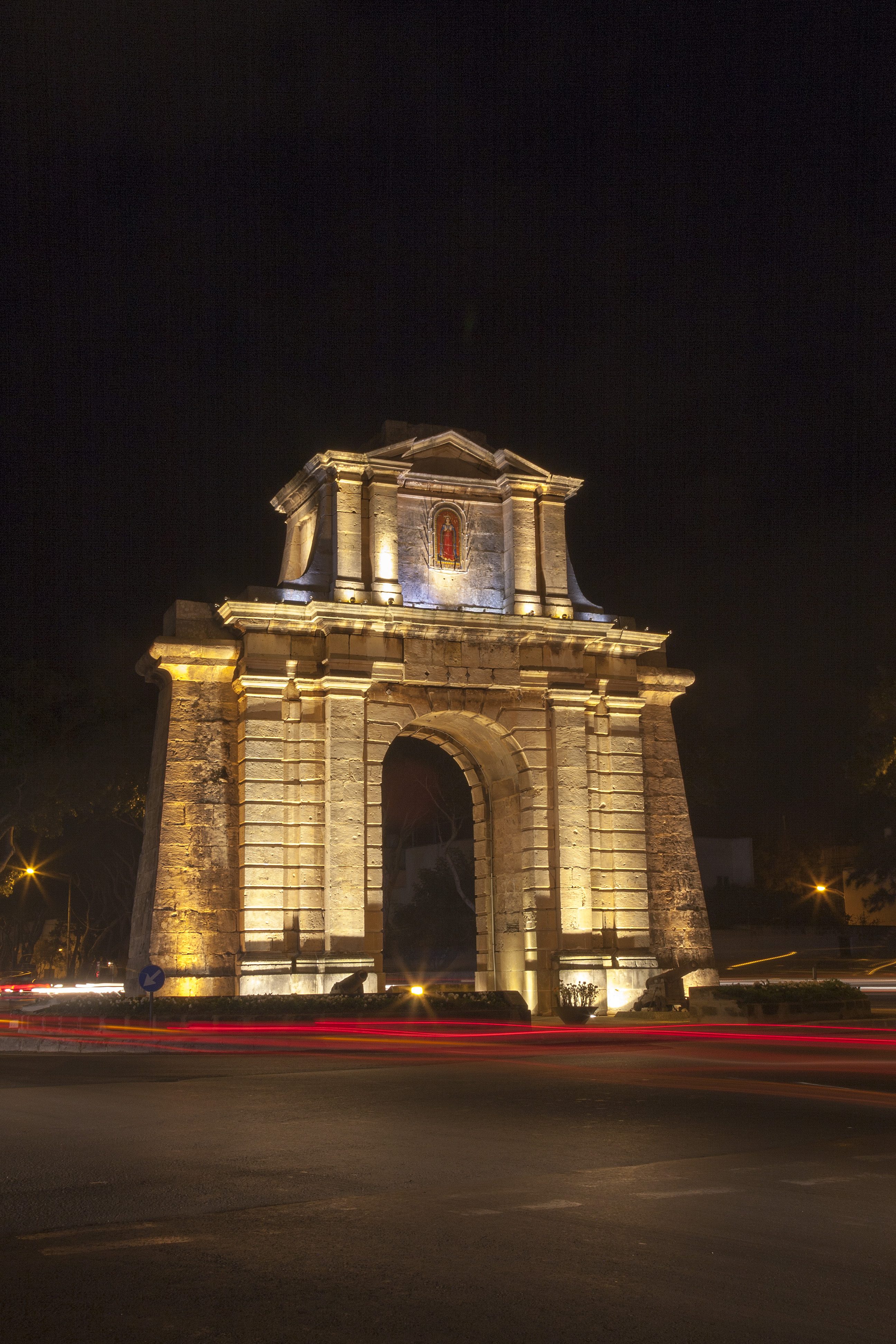 Hompesch Gate This media is about Maltese cultural property with inventory number 00006.